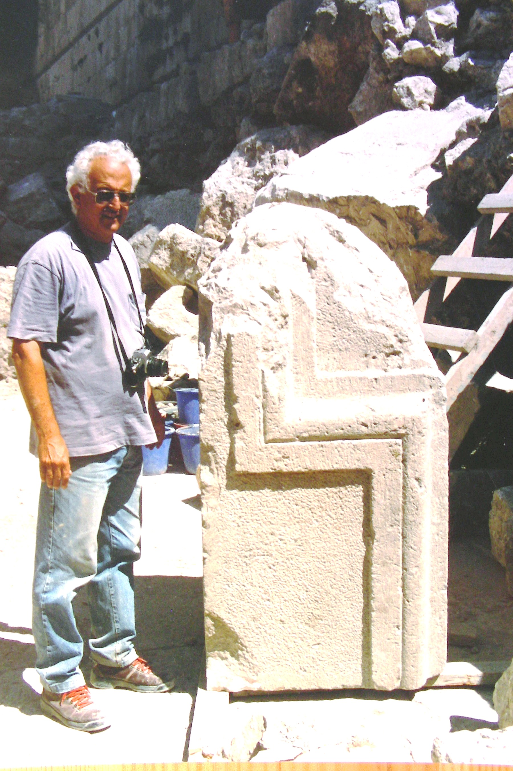 Professor Ronny Reich - Archaeologist from Haifa University, Israel.